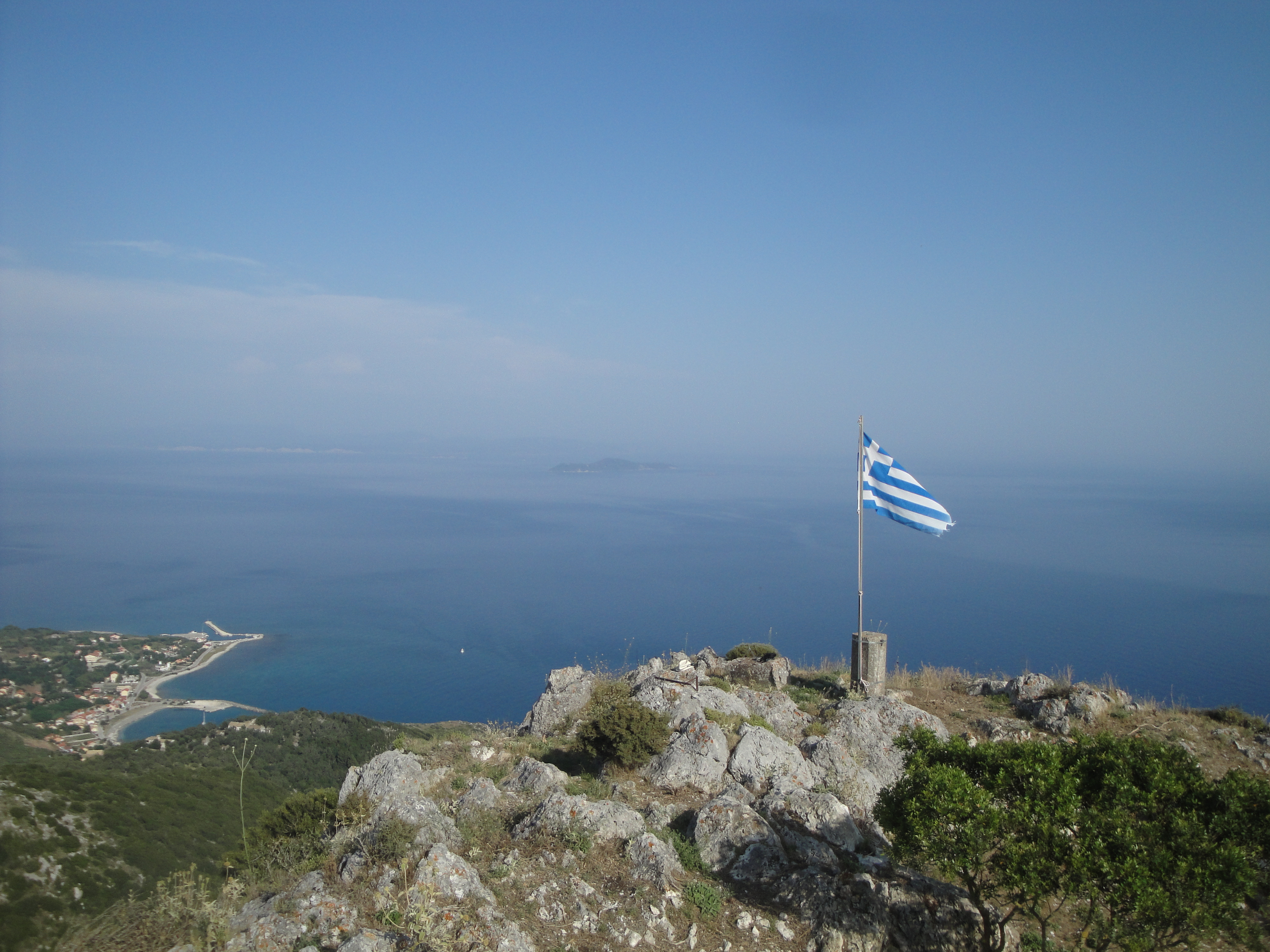 Imerovigli is the top peak of Othoni island, 2 klms (on foot) from Chorio